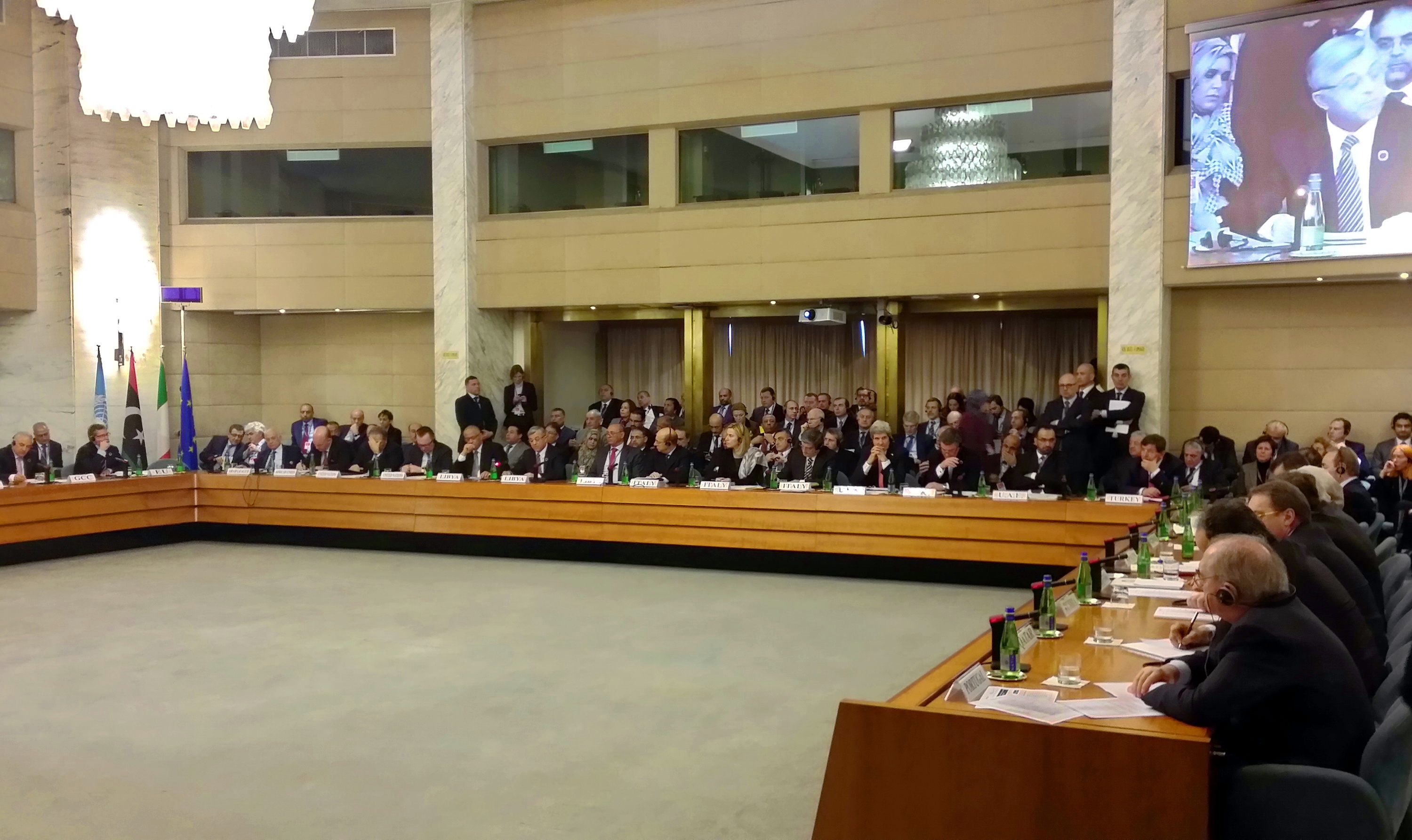 U.S. Secretary of State John Kerry joins other participants during the plenary session at the International Conference on Libya in Rome, Italy on March 6, 2014. [State Department photo/ Public Domain]